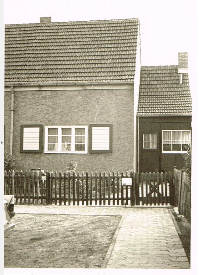 Photography of a house of the Borsig settlement from the summer of 1969.